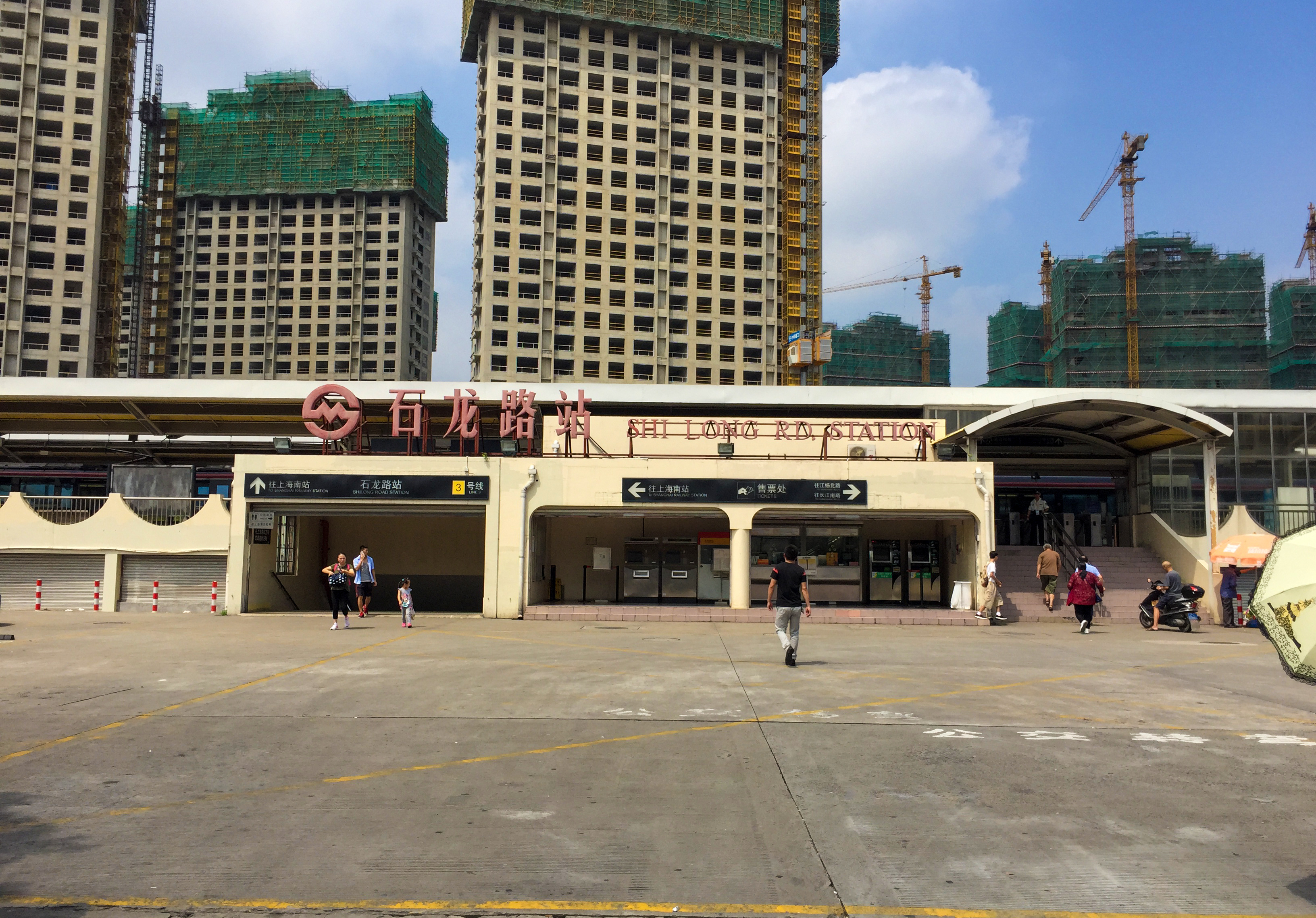 No more namesake problems, as that "Shilonglu" was finally renamed Qiaohuying Station.